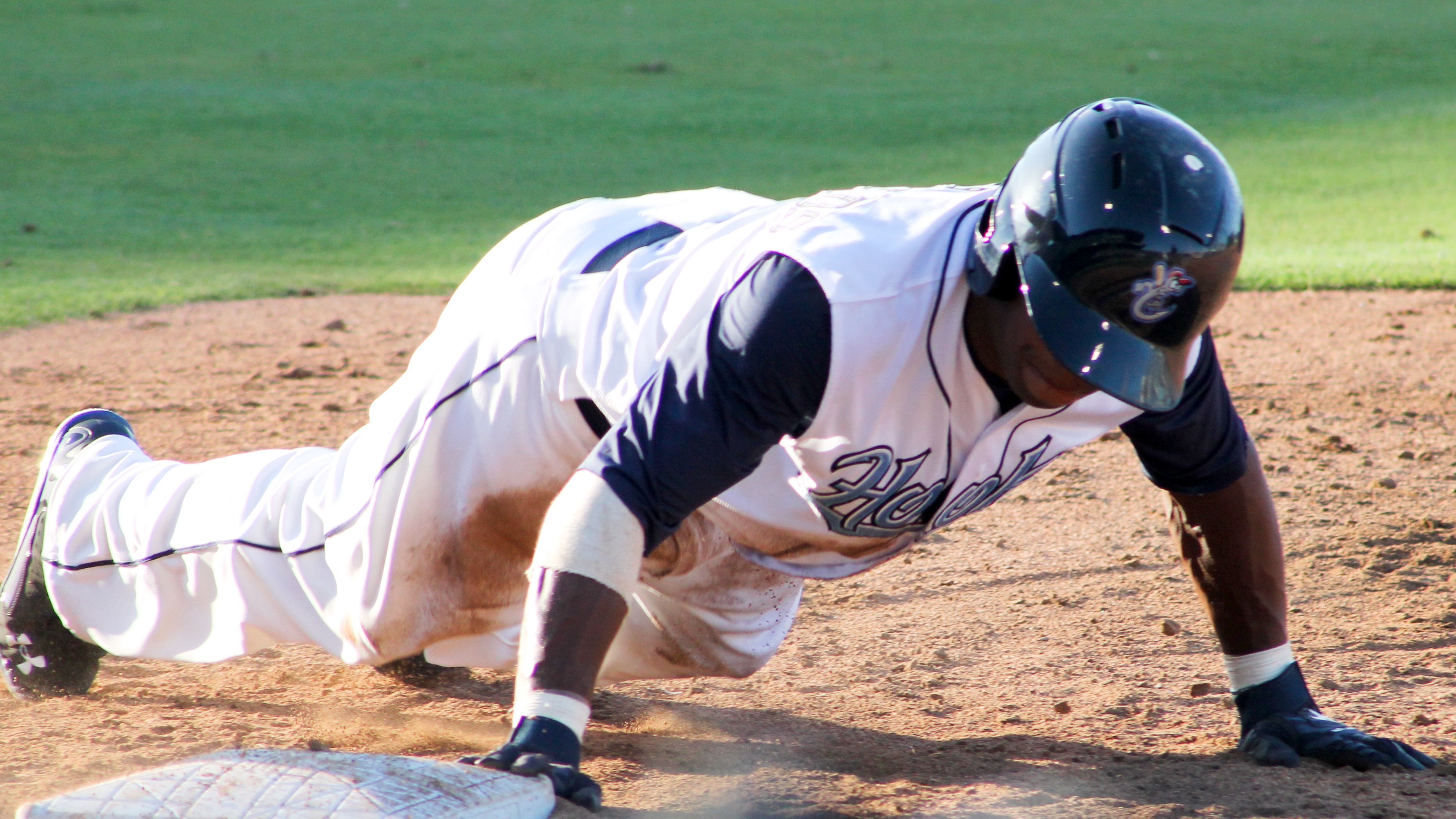 Delino DeShields, Jr., a minor league baseball player for the Corpus Christi Hooks, slides back into first base during a July 2014 game.